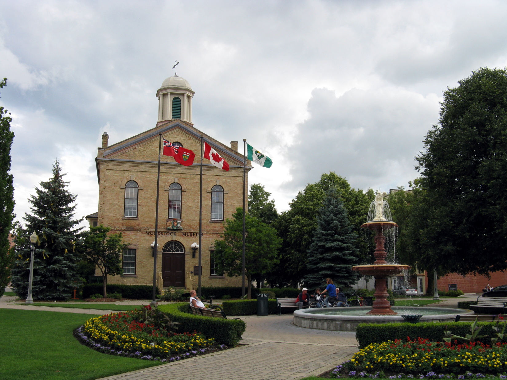 Old City Hall in Woodstock, Ontario. Constructed in 1851-1852.